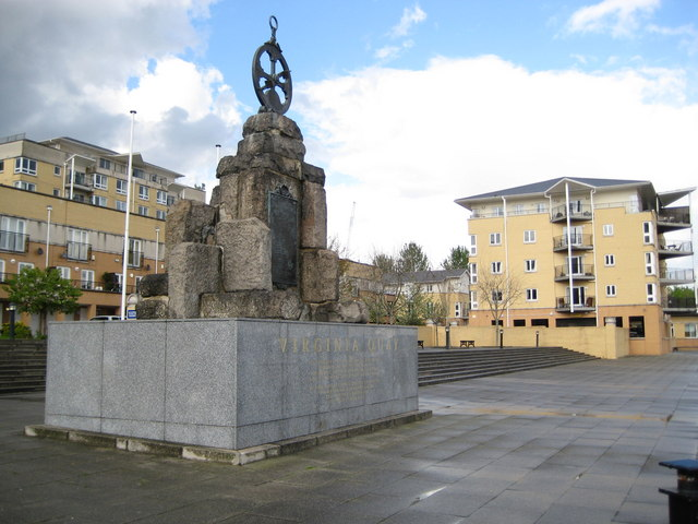 Blackwall: The Virginia Settlers' Memorial & the Virginia Quay